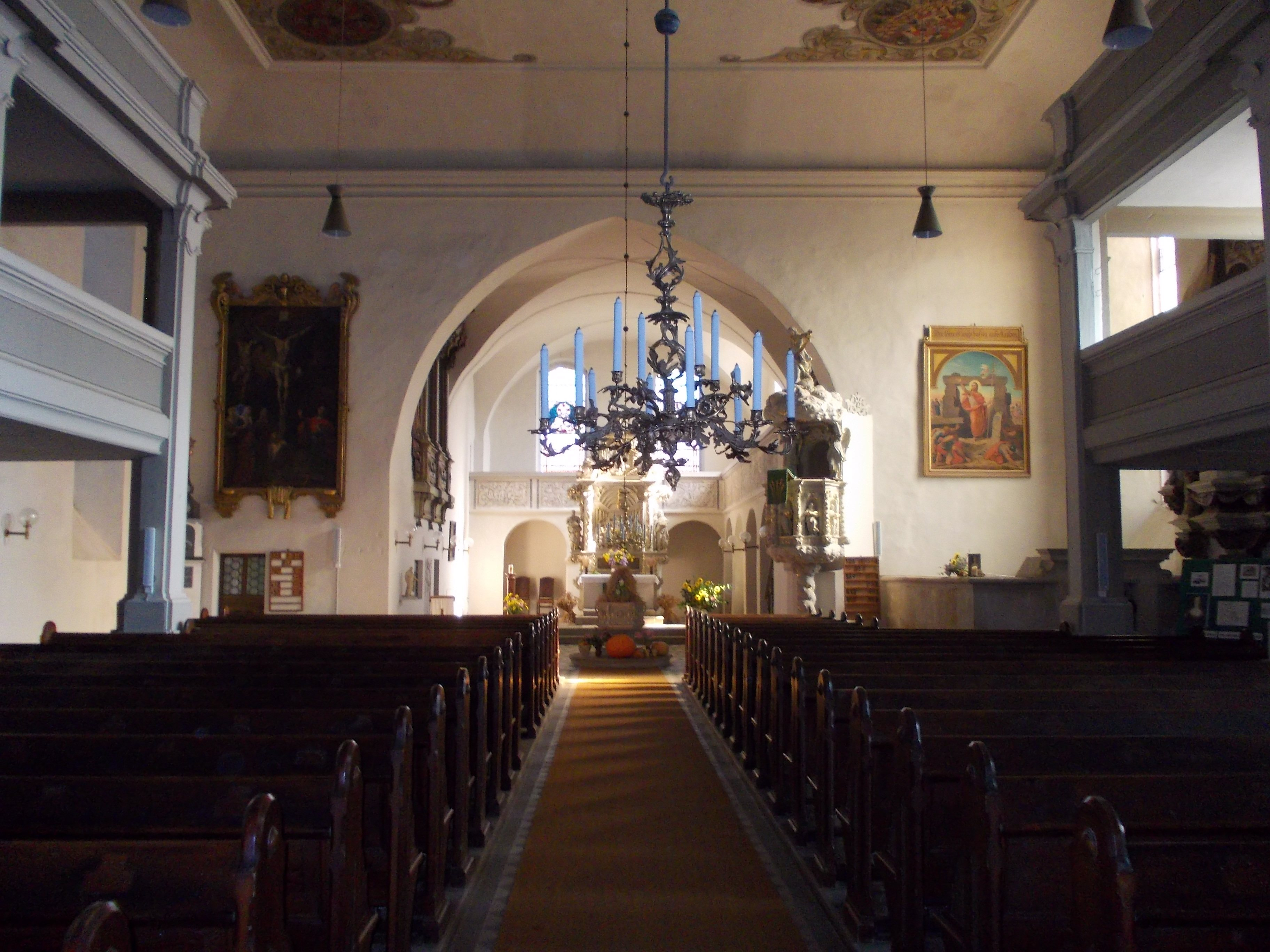 St. Nicholas' Church in Pretzsch (Bad Schmiedeberg, Wittenberg district, Saxony-Anhalt)